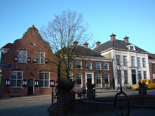 Townhall Aalten